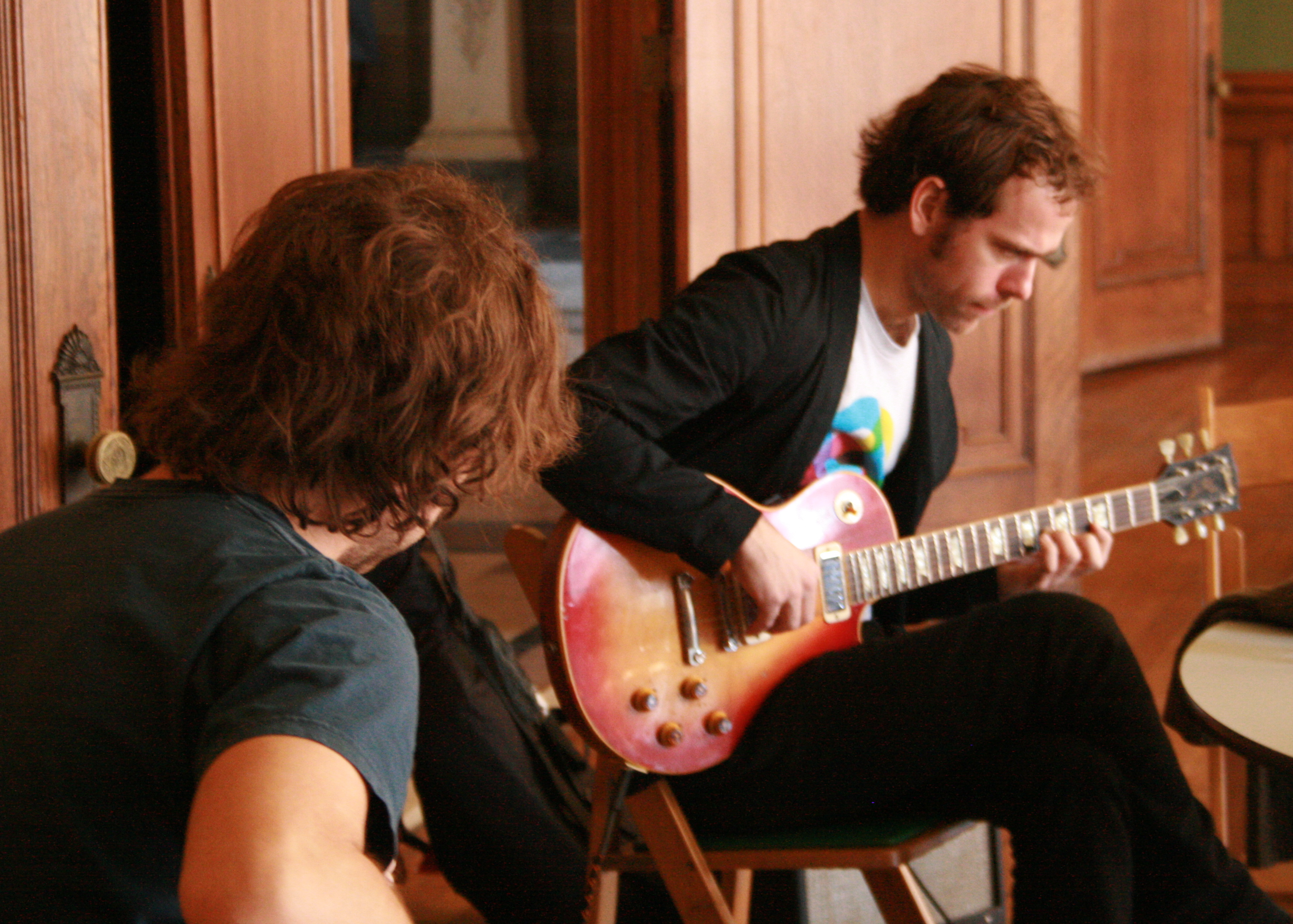 Aaron Dessner and Bryce Dessner rehearsing and MusicNOW 2008, Cincinnati, Ohio, Memorial Hall. Aaron has his back to the camera.